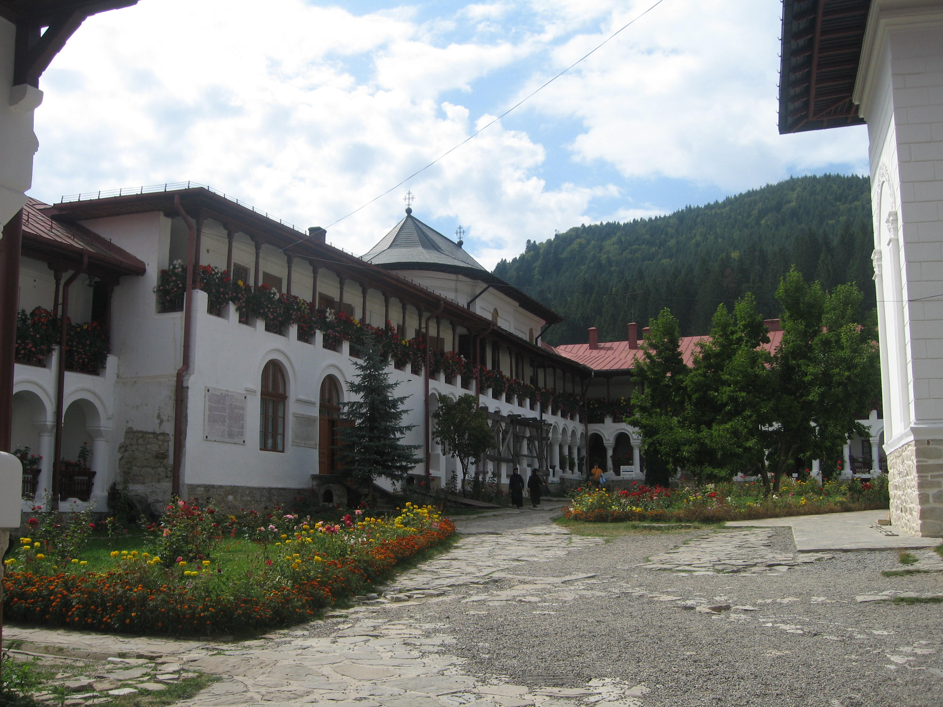 Mănăstirea Agapia 04